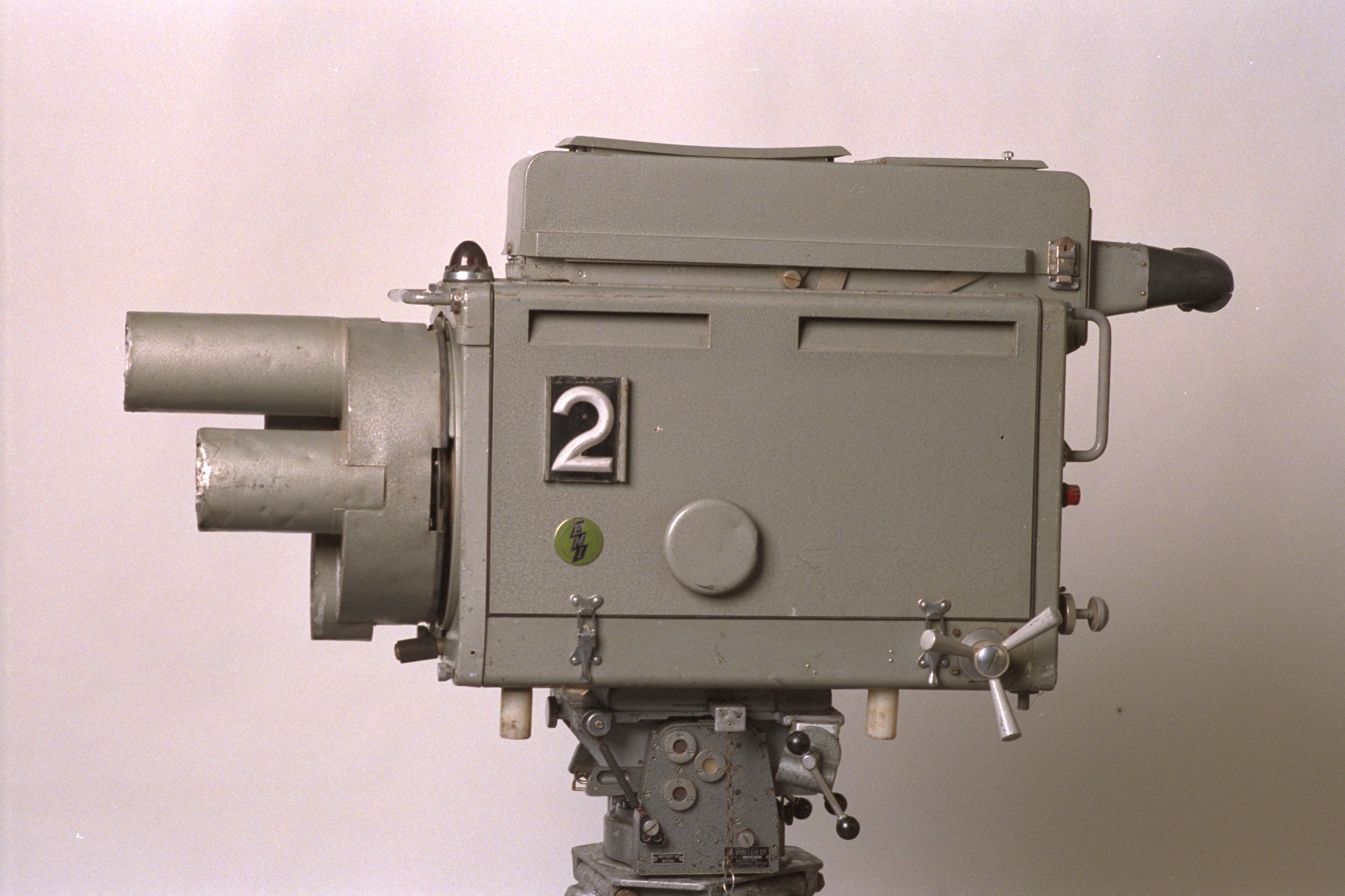 The first post-war British television camera was the CPS Emitron. First used for the 1948 Olympic Games in London, this camera continued in service until the late 1950s. The example here, shown with its control equipment, dates from 1950 and has a different design of casing to the first production models. Daily Herald Archive at the National Media Museum